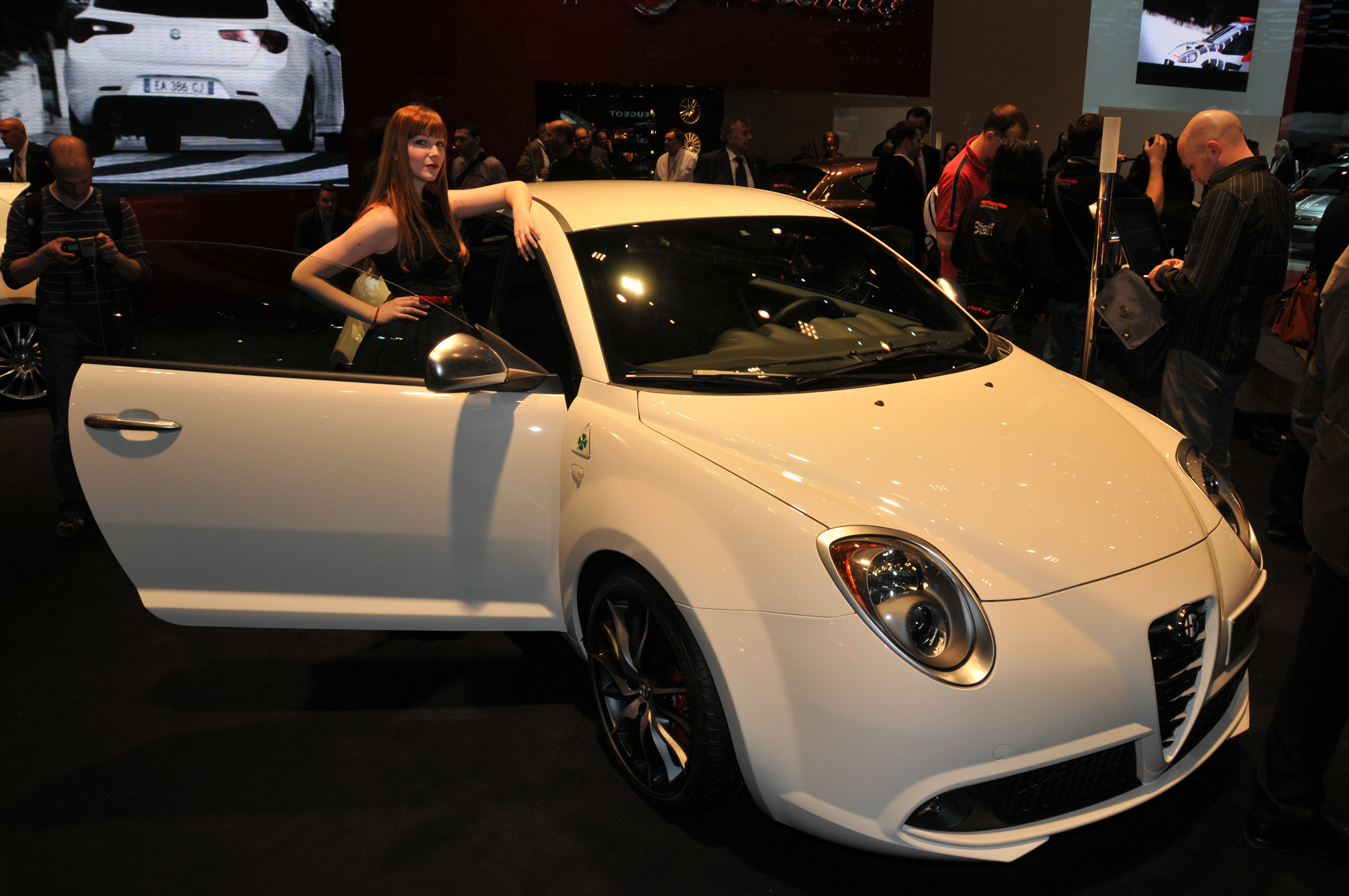 Alfa Romeo MiTo at the Geneva Motor Show. For more info and images